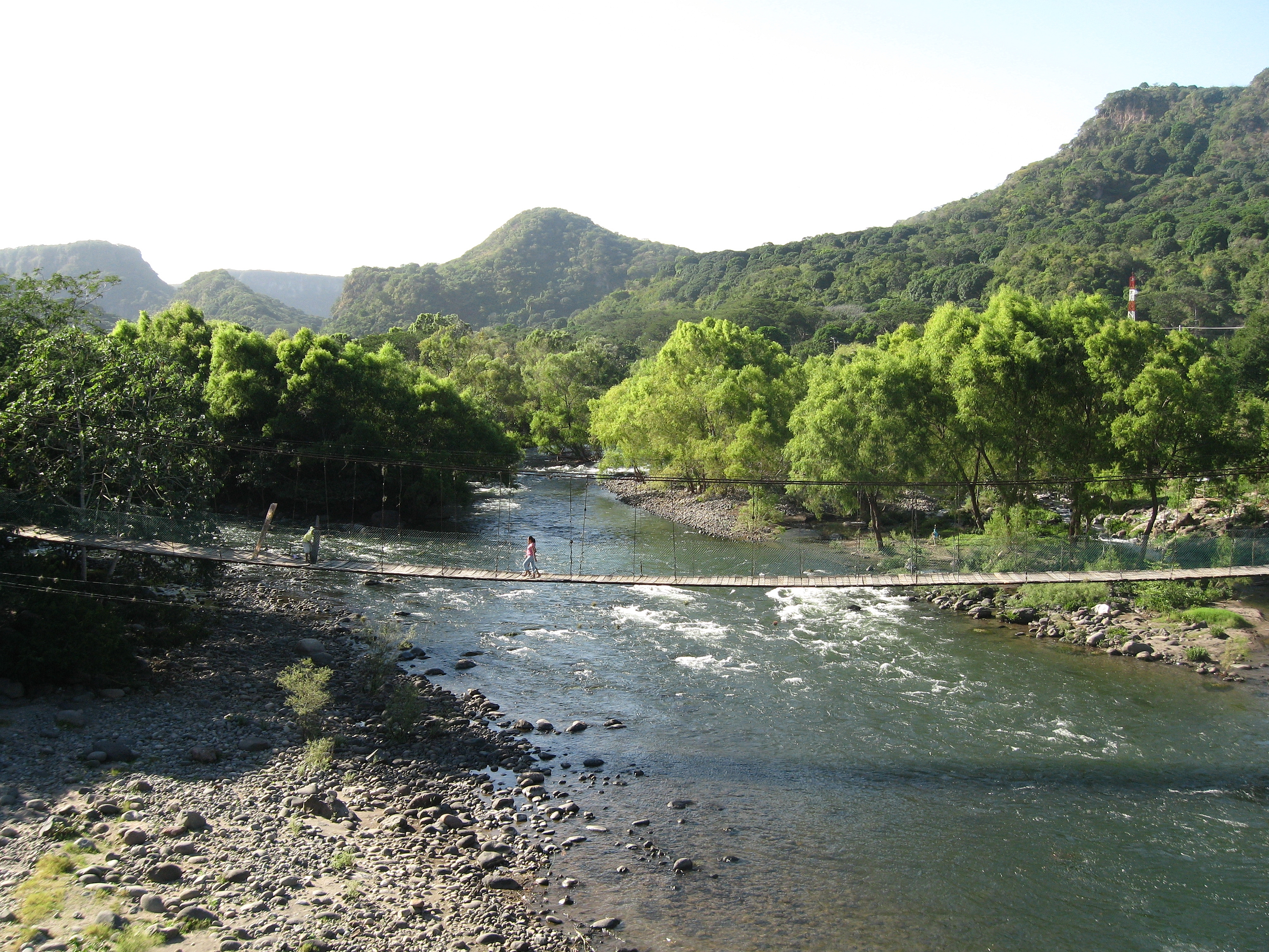 Footbridge across Río Antigua (Río de los Pescados Section), Jalcomulco, Veracruz, Mexico.